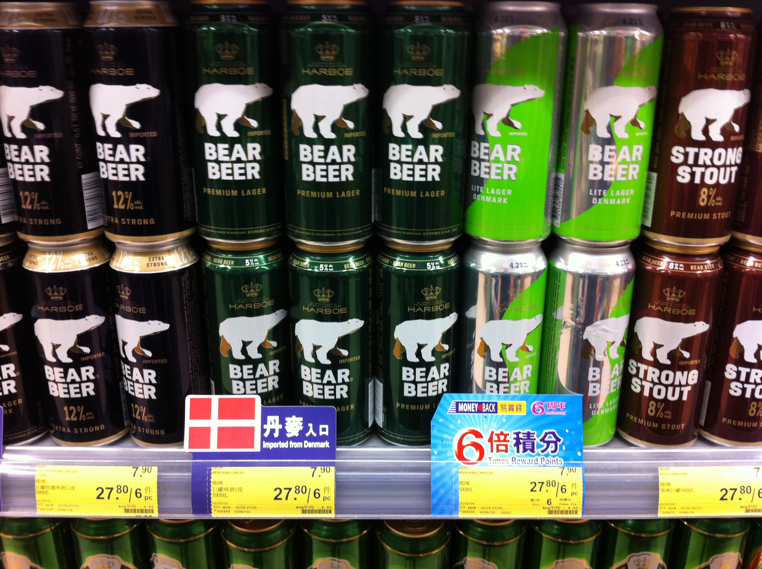 Parkn Shop supermarket, Hong Kong